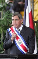 Óscar Arias Sánchez, president of Costa Rica, during a visit by US president George W. Bush May 8, 2006